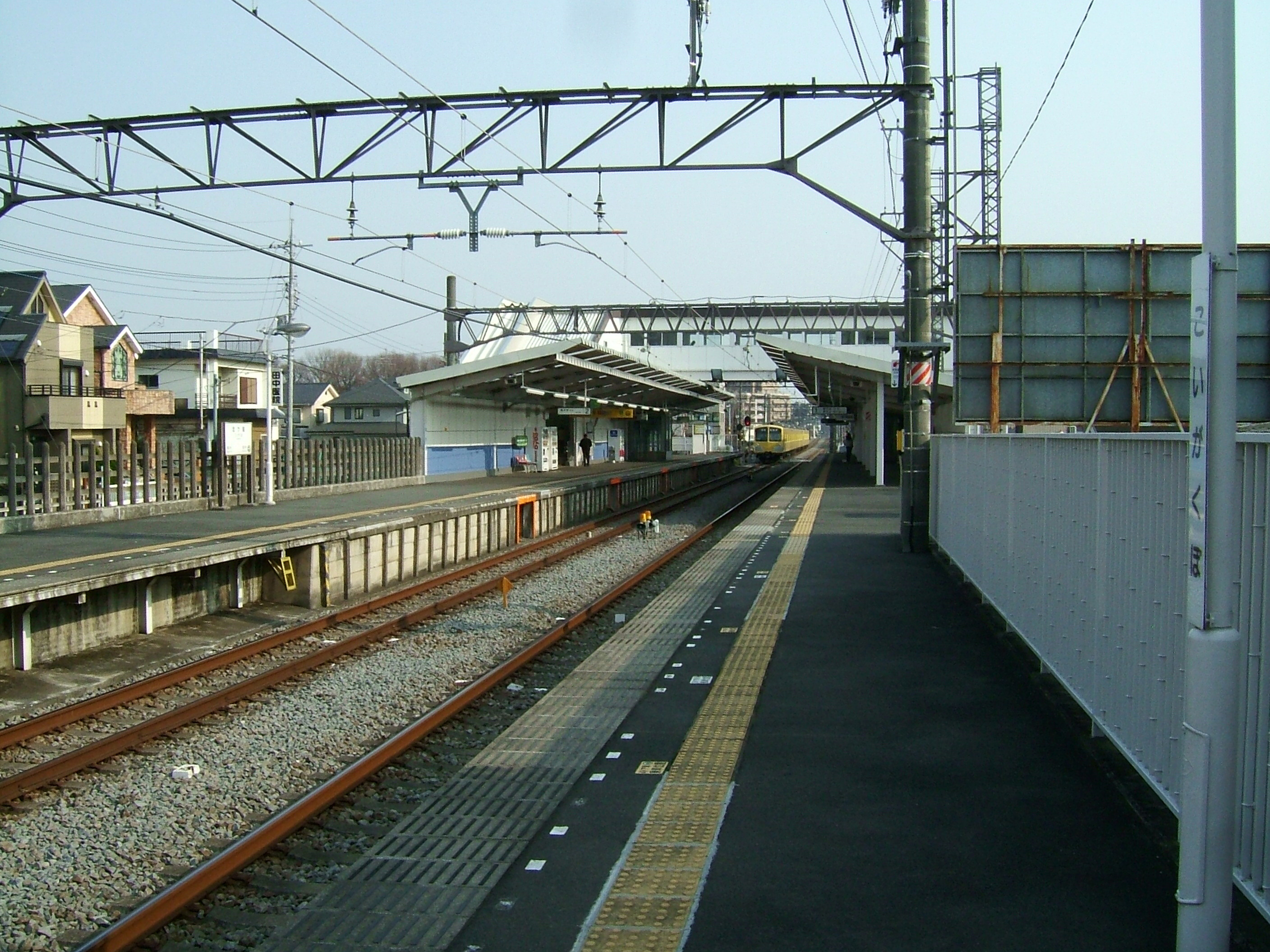 Koigakubo Station platform (Seibu Kokubunji Line)